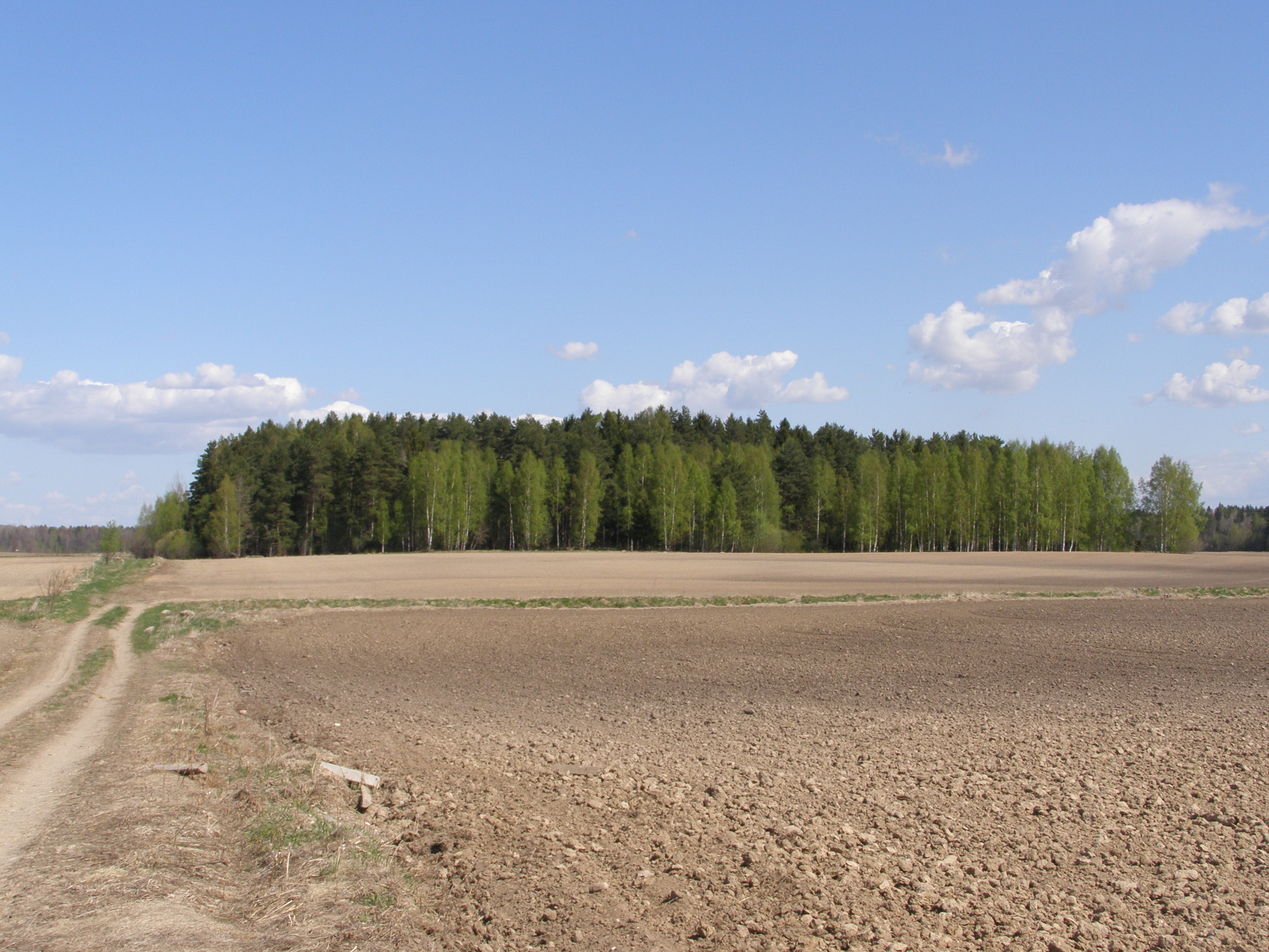 Voveraičiai fossil fields, Kretinga district, LithuaniaLietuvių: Voveraičių senovės žemdirbystės vieta, Kretingos rajonas, Lietuva